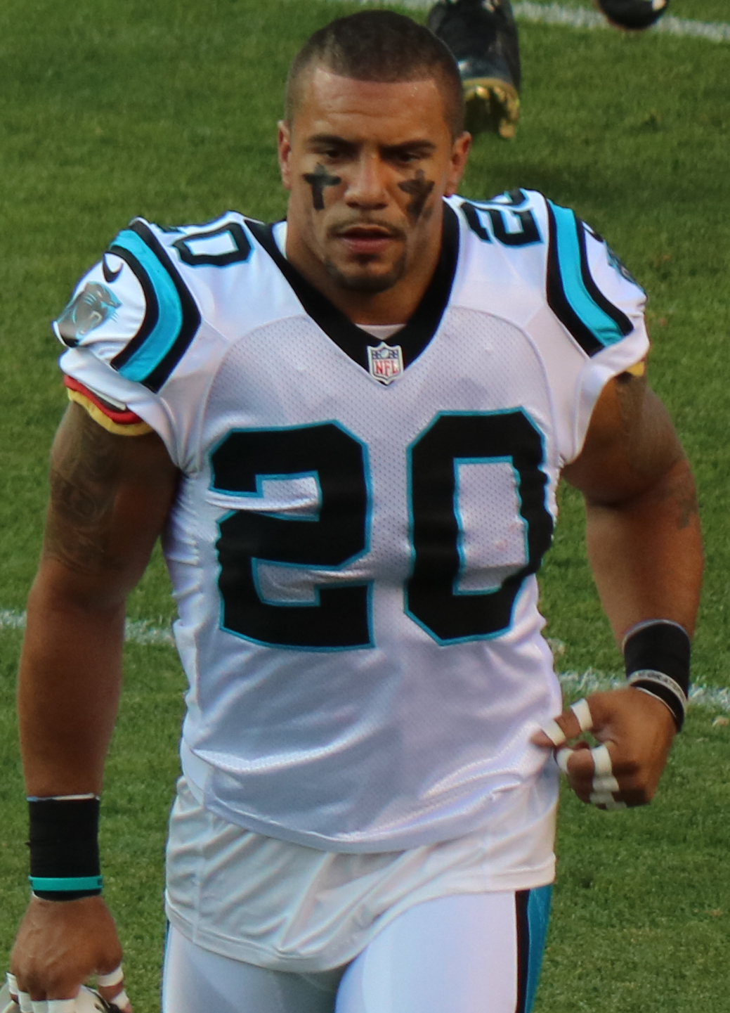 Kurt Coleman, a player on the National Football League.